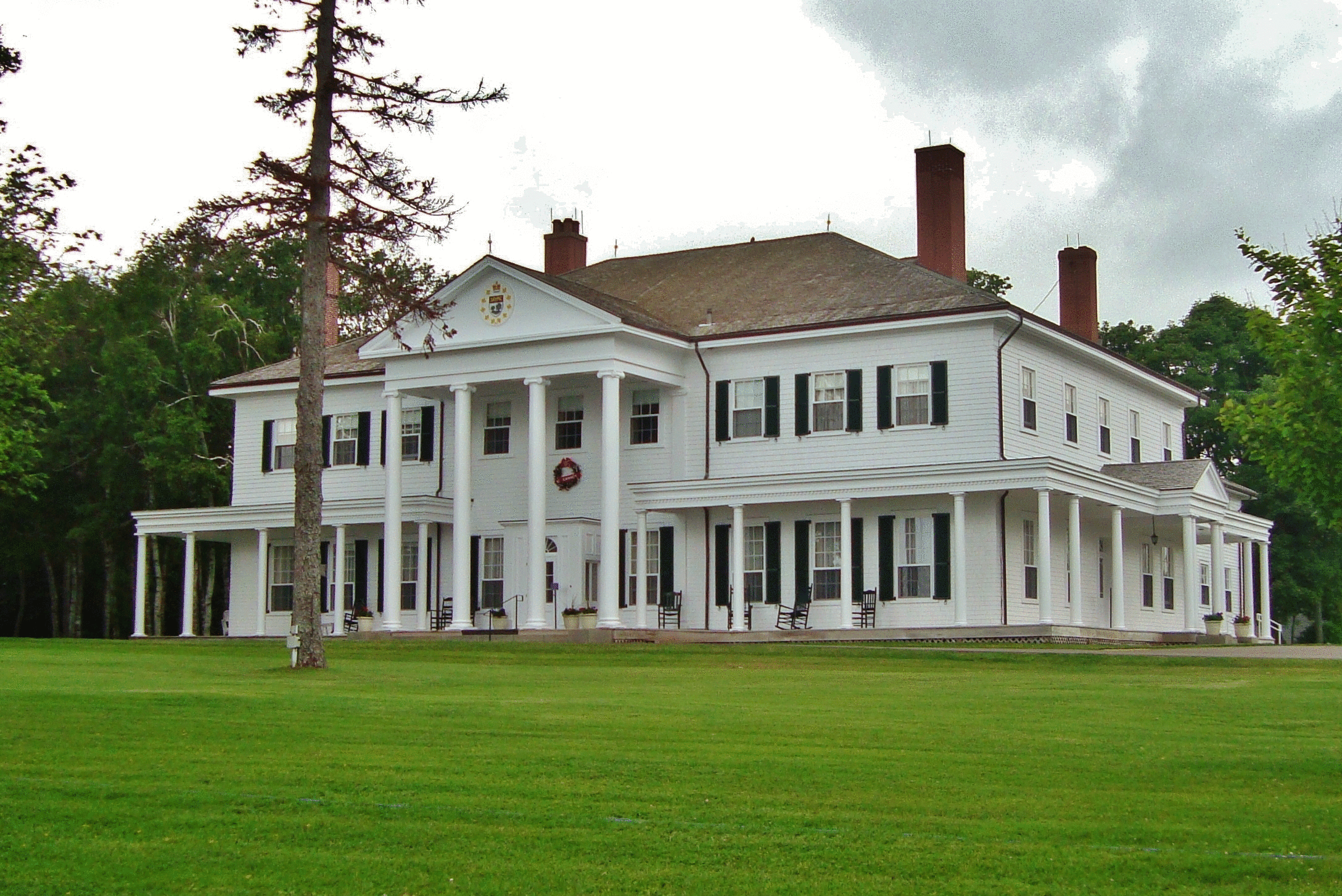 Government House in Charlottetown, PEI